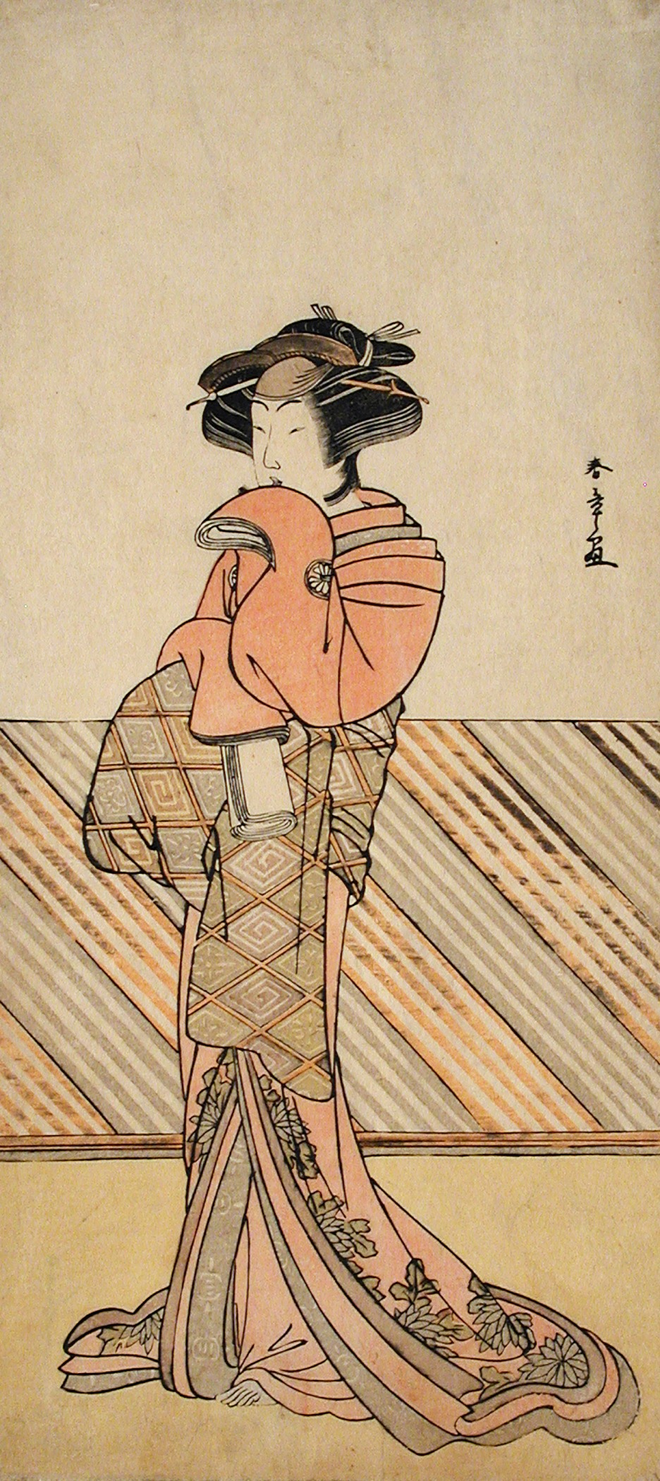 Japan, circa 1778 Prints; woodcuts Color woodblock print Image: 12 13/16 x 5 13/16 in. (32.5 x 14.7 cm); Paper: 12 13/16 x 5 13/16 in. (32.5 x 14.7 cm) Anonymous gift (M.73.75.41) Japanese Art